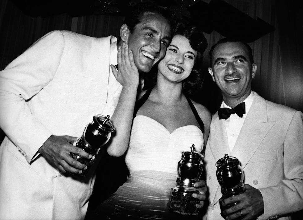 Saint-Vincent (Aosta Valley, Italy), July 7, 1957. From left to right: actors Vittorio Gassman and Giovanna Ralli, and director Alberto Lattuada, awarded with the Grolla d'oro ("Golden Grolla").